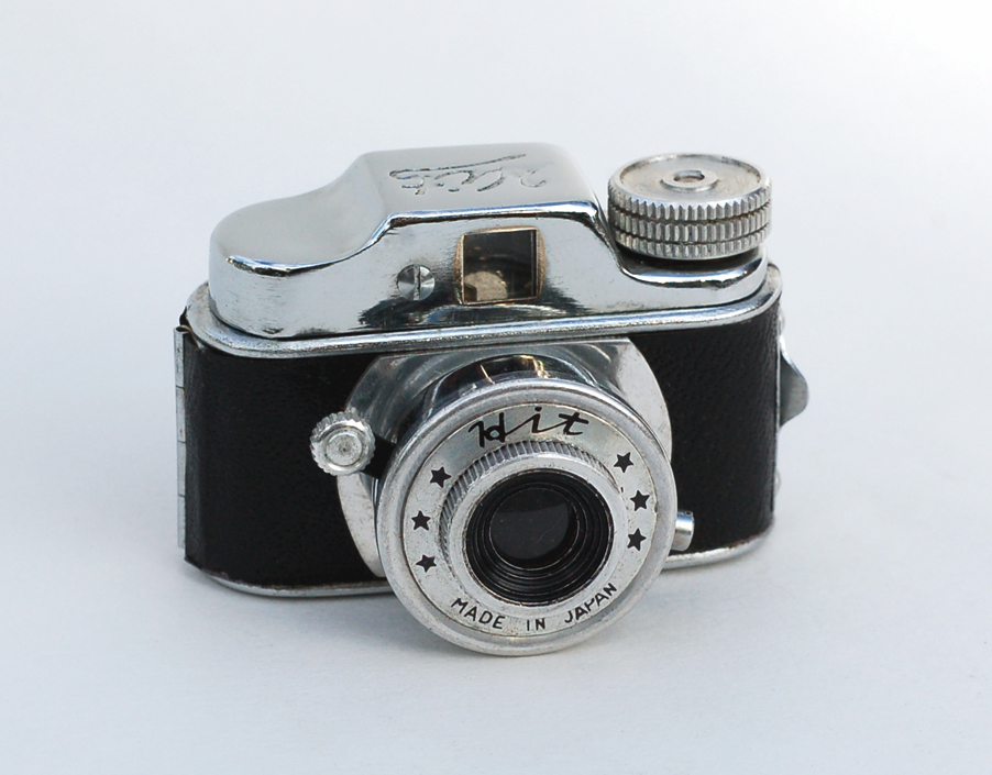 VERY small camera made in Japan. This type of camera goes by many names, but all subminiature cameras of this design are referred to as "Hit-type" cameras, as the Hit was one of the first of its kind. Production began just after WW2.